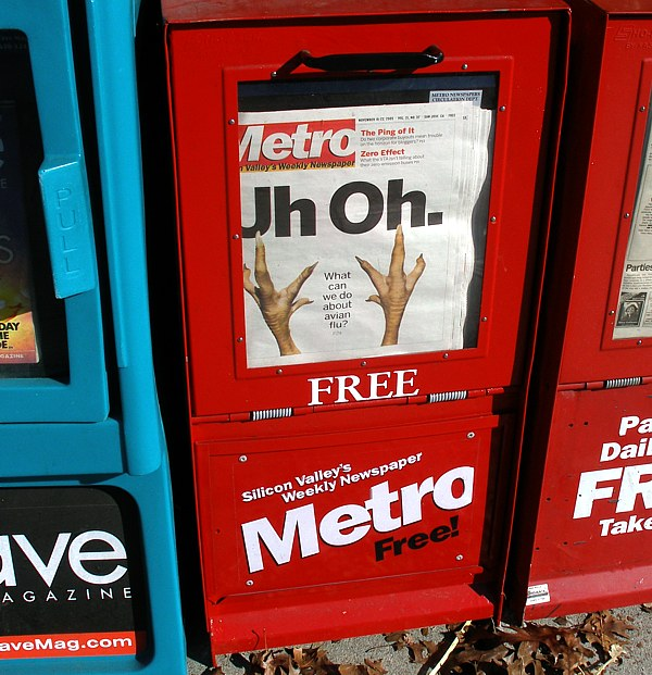 A Metro Newspapers news rack on El Camino Real in Mountain View.